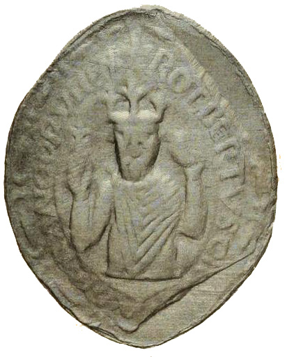 Seal of Robert II.